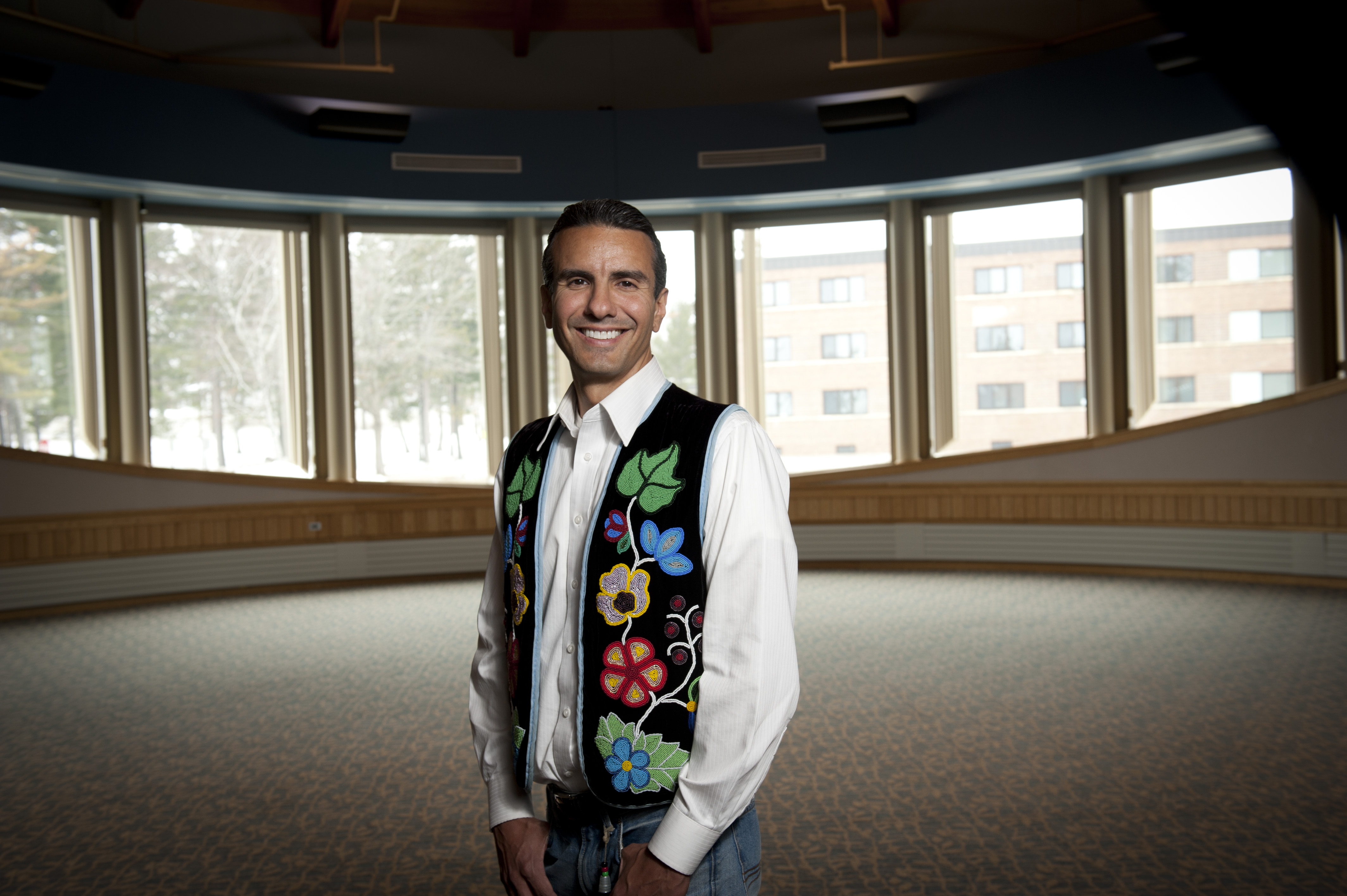 Picture of Anton Treuer